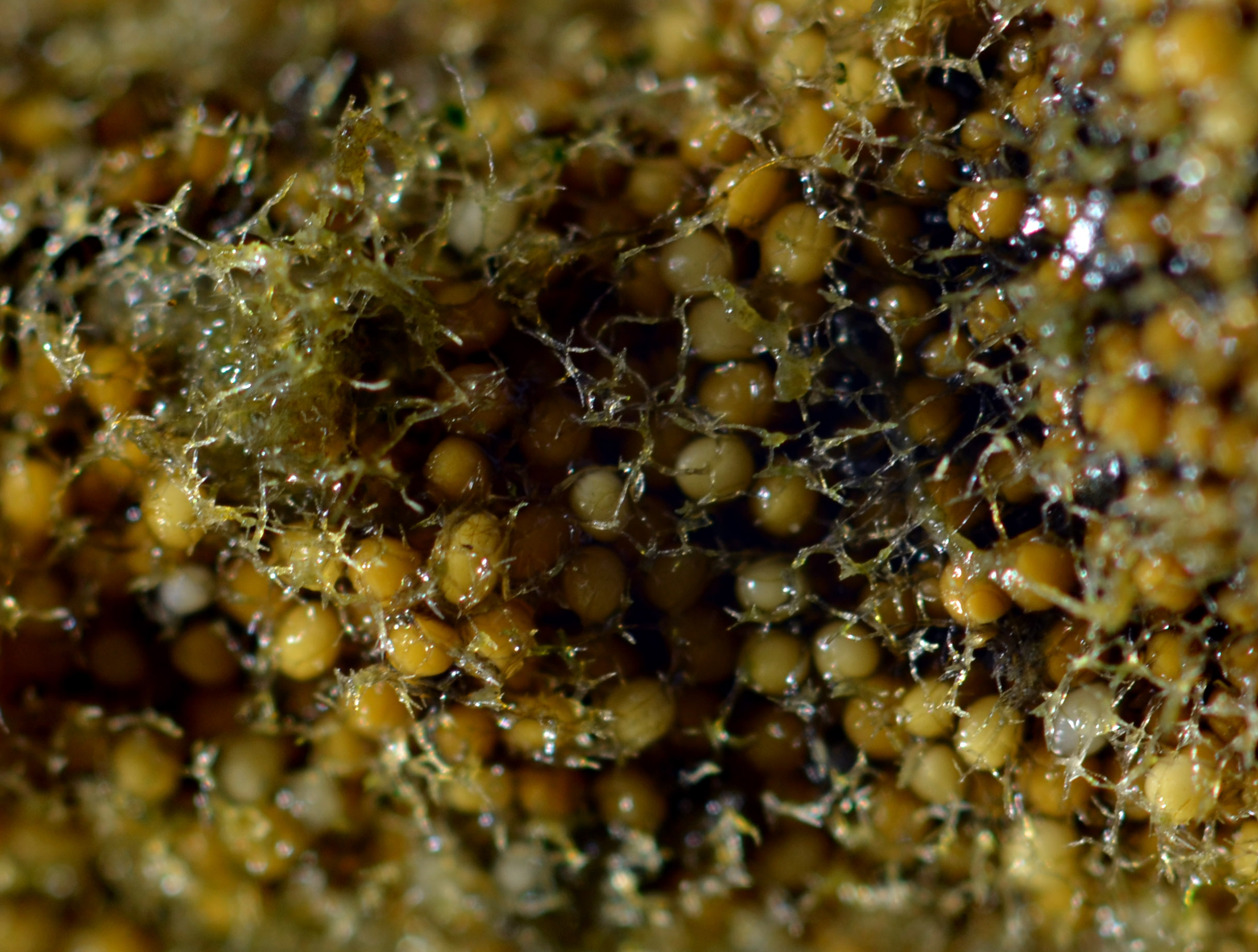 Gemmules of the freshwater sponge Spongilla lacustris (here in northern France) = resistant form of metabolic dormancy and appear in autumn.